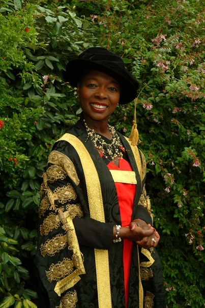 Promotional photo of University of Exeter Chancellor Floella Benjamin with explicit permission from the University of Exeter